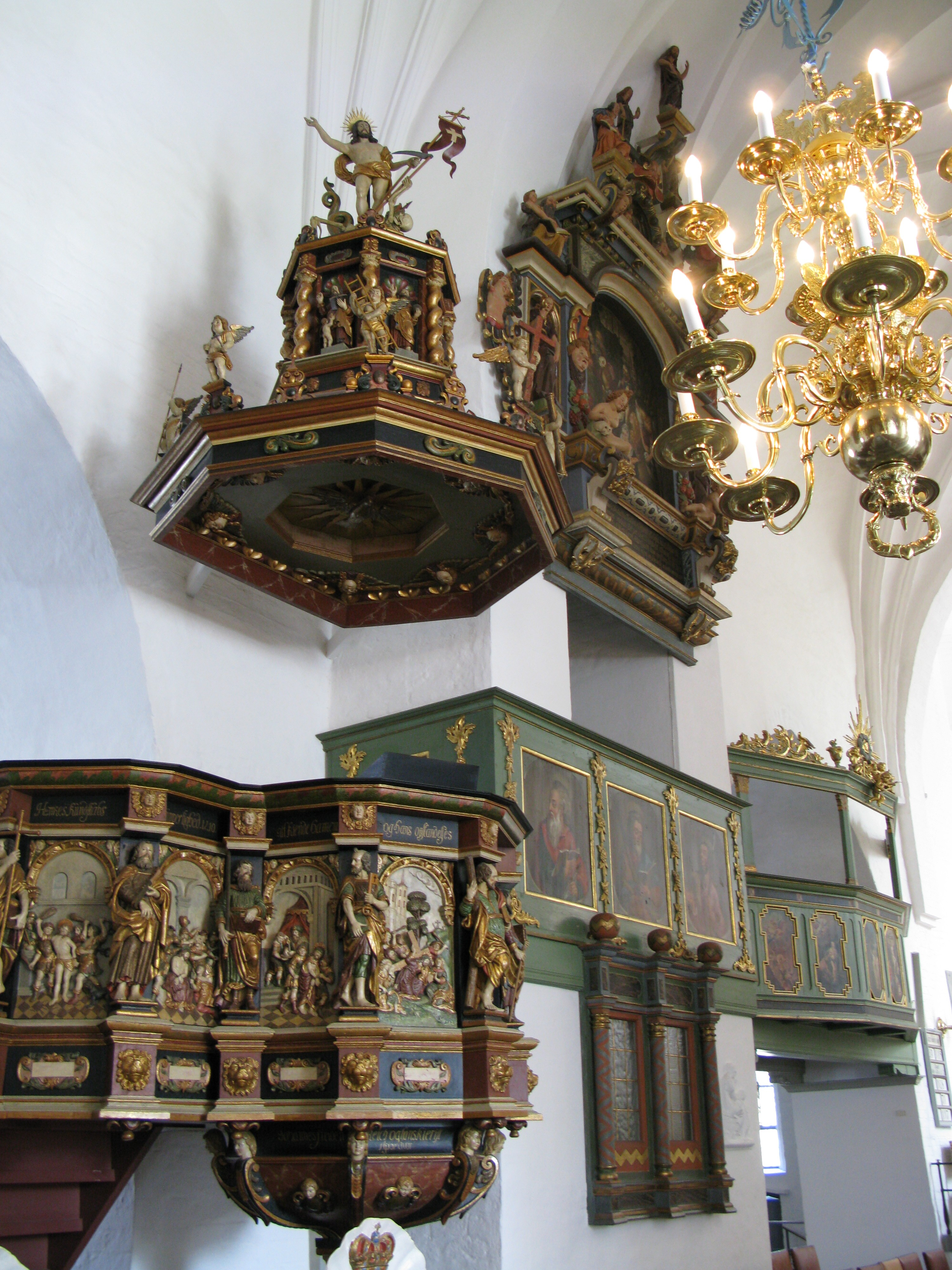 Pulpit of Budolfi-Cathedral Aalborg, Northern Denmark